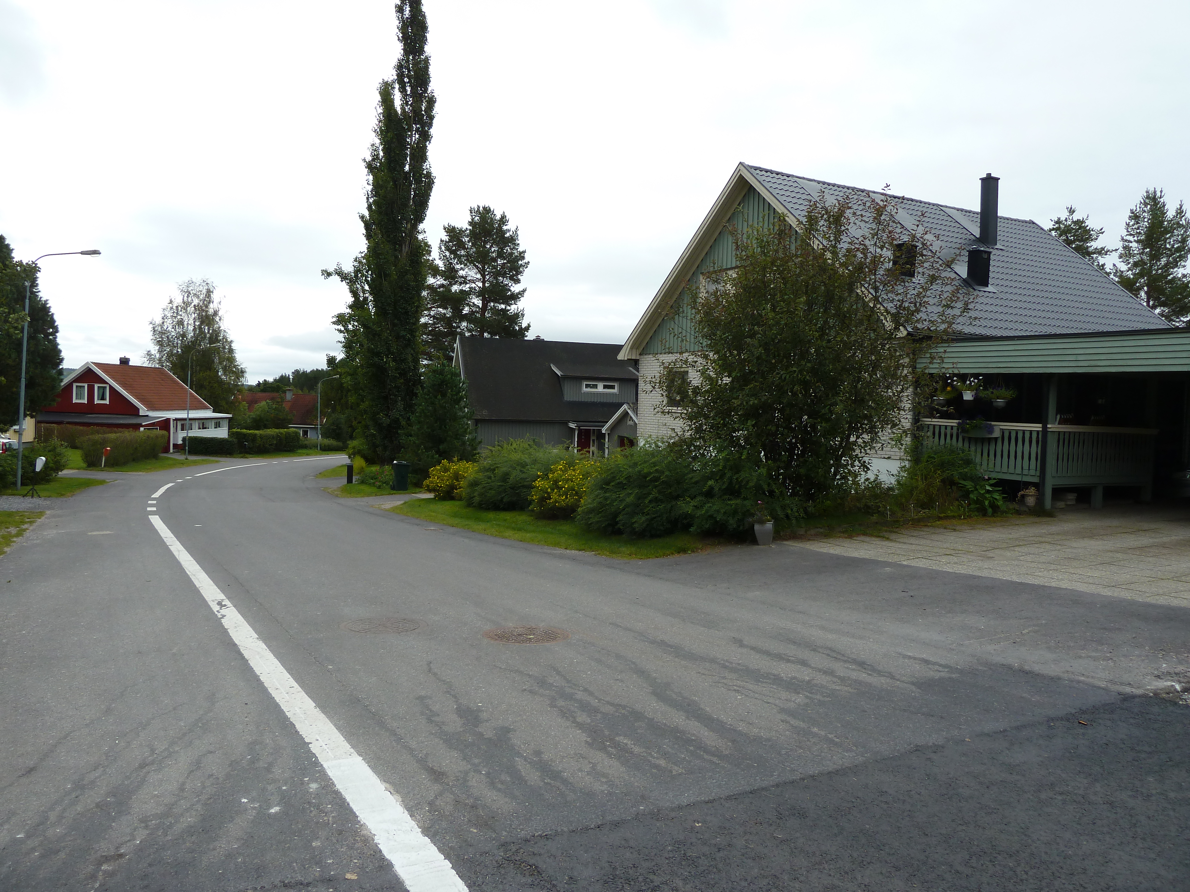 Själevad, Örnsköldsvik, Sweden